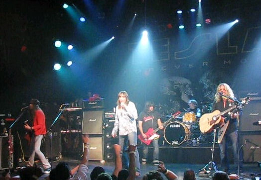 Tesla Rocks "Forever More" at the Chance in Poughkeepsie, NY. April 27, 2009.